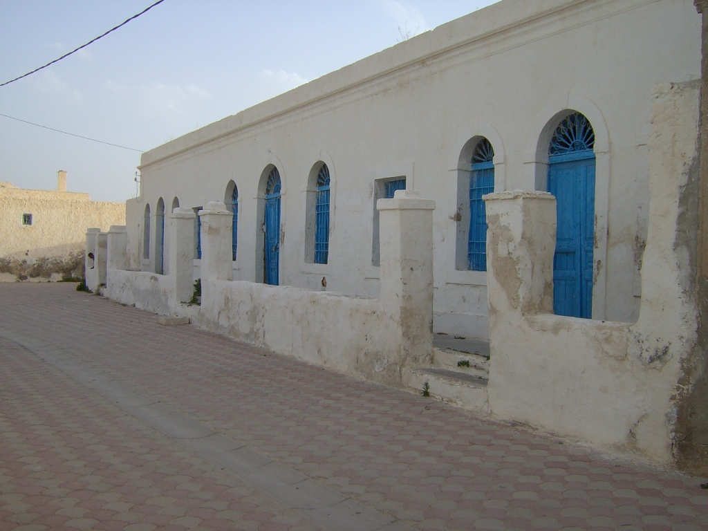 Facade of the abandoned Dighet yeshiva in Er Riadh on the island of Djerba, Tunisia.